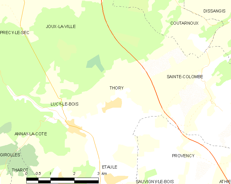 Map of French municipality Thory